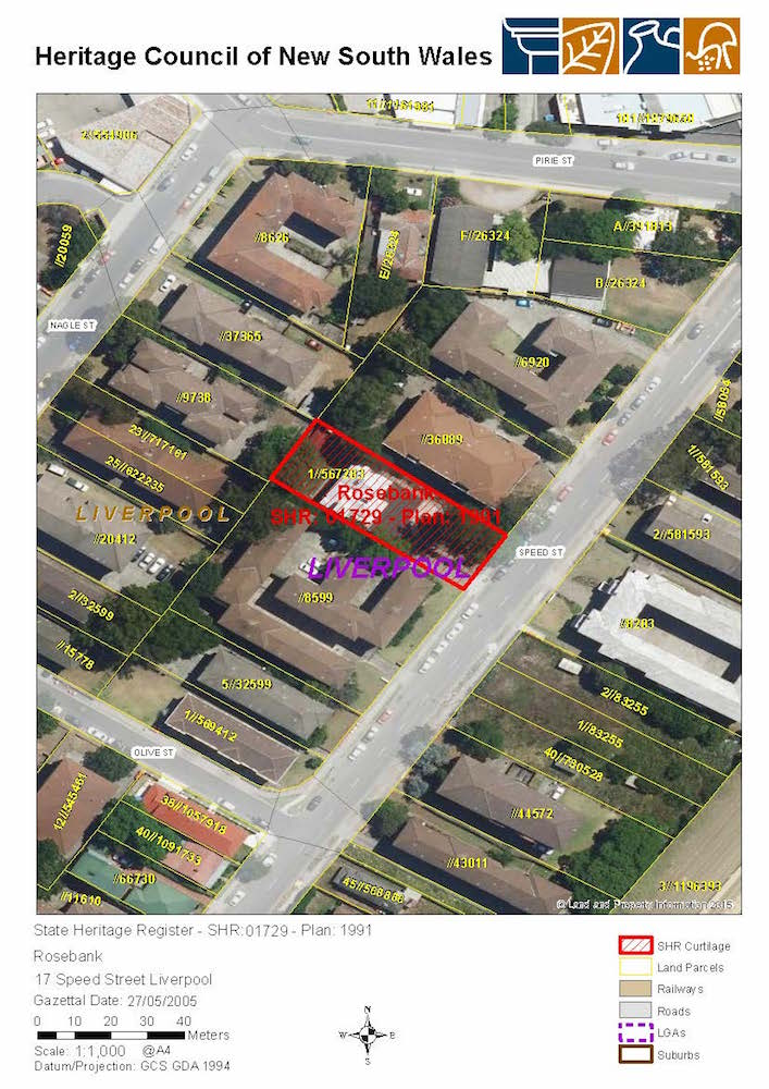 Rosebank, Liverpool: HC Plan 1991